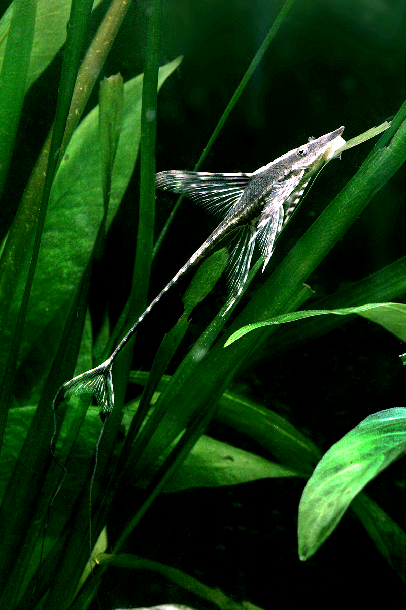 Description: Sturisoma is a genus of catfishes (order Siluriformes) of the family Loricariidae